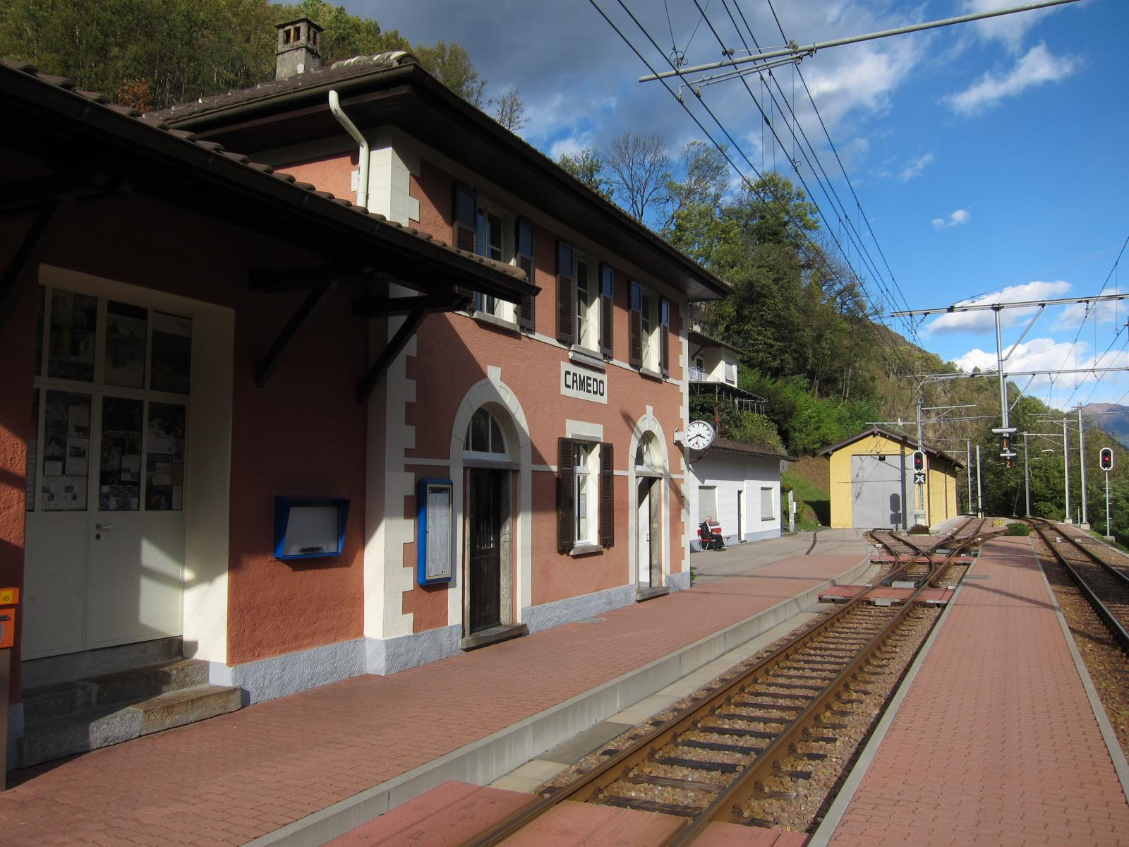 Bahnhof Camedo